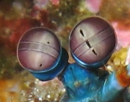 Mantis shrimp (Odontodactylus scyllarus) near Gili Banta Island (near Komodo, Indonesia)